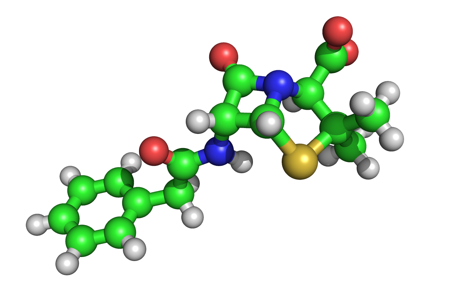 3D representation of the atomic structure of Penicillin g, taken from pdb code 1gm7. Hydrogens were generated using the ProDRG server ( Image generated using PyMol ( Image created by me. Bassophile 10:36, 13 July 2007 (UTC)